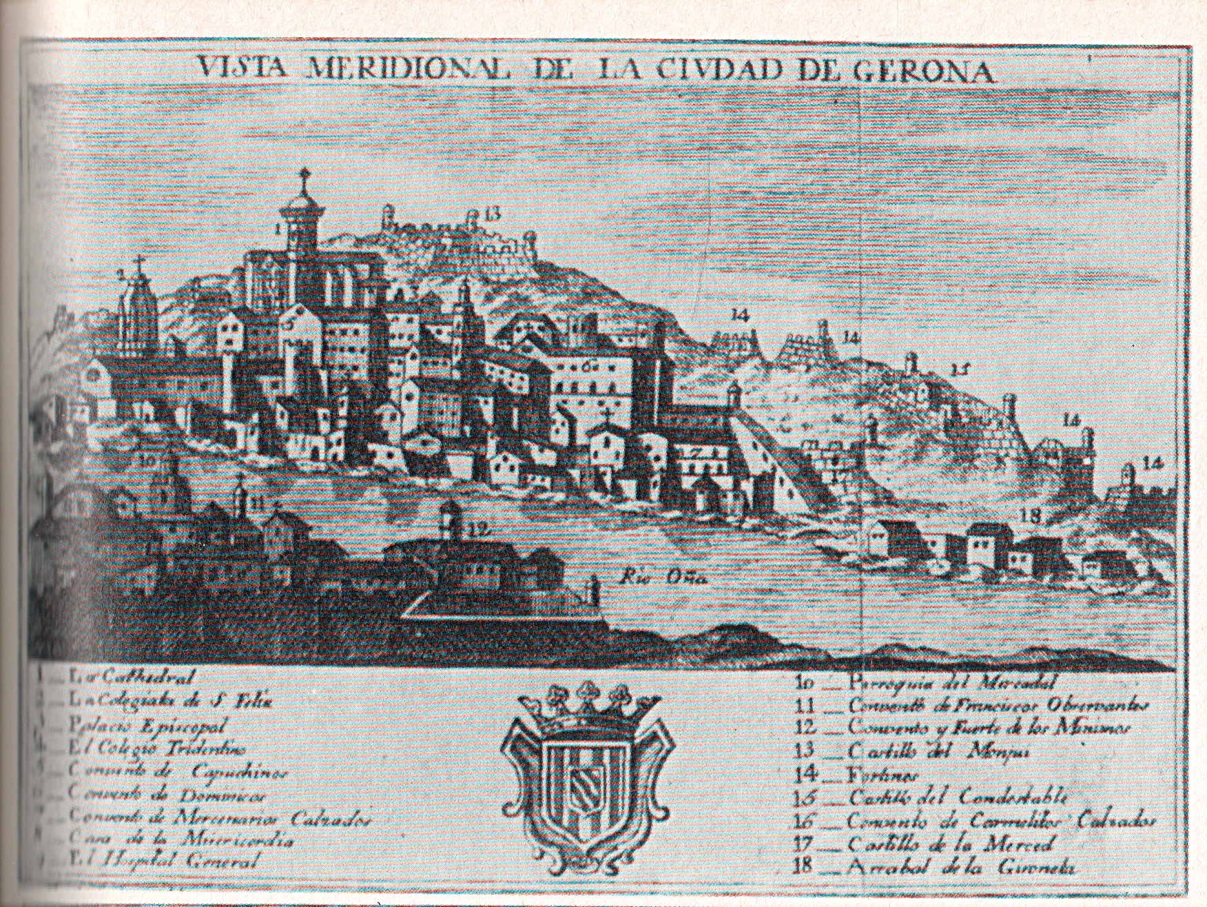 City of Girona in 1780.